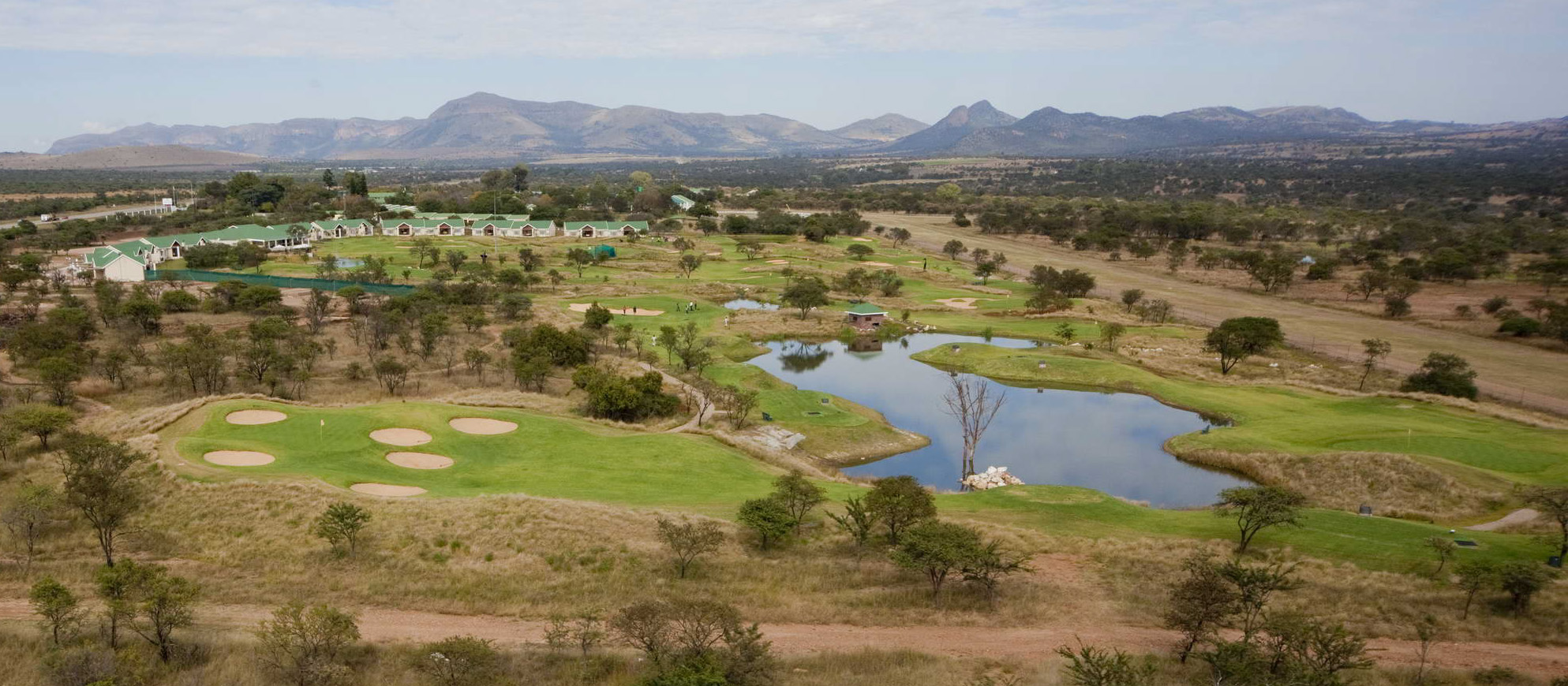 Aerial photograph at The Ranch Resort